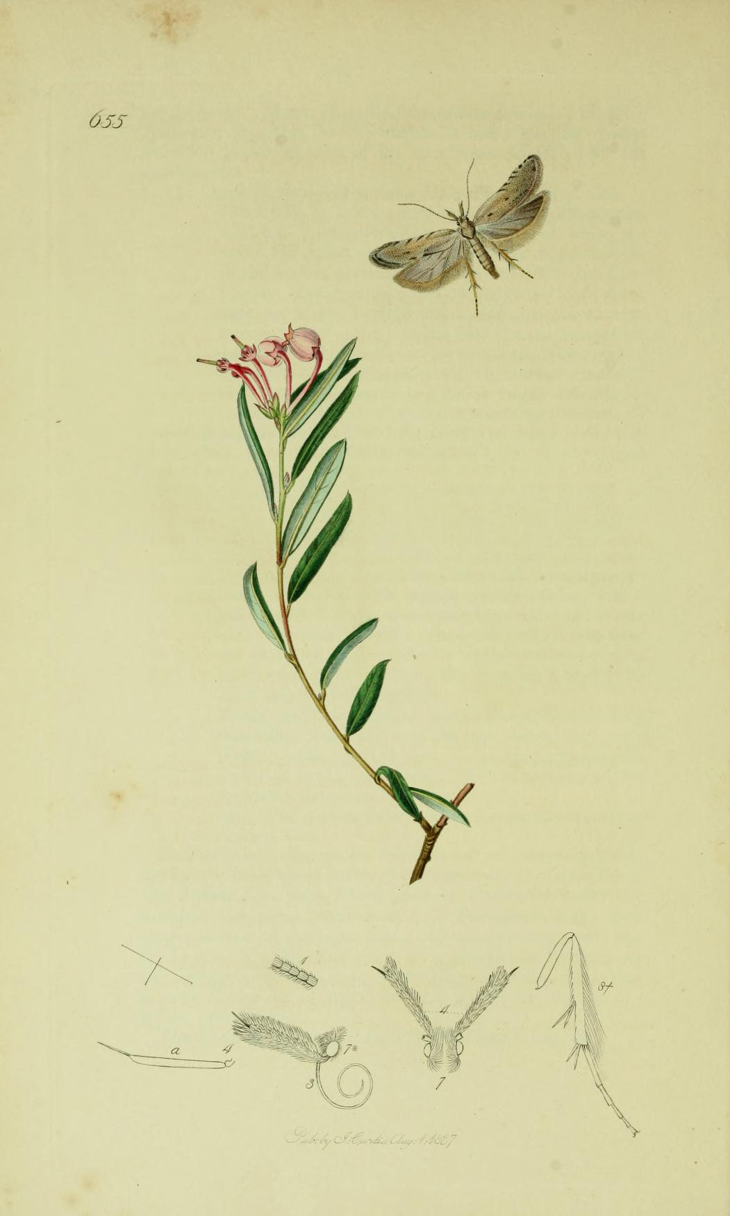 An illustration from British Entomology by John Curtis. Lepidoptera: Aplota robertsonella Curtis or Anarsia spartiella (Wanstead Grey).